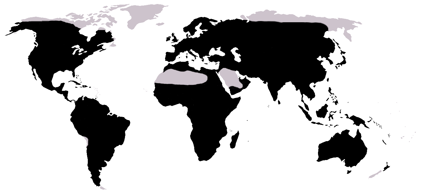 The global distribution of frogs.